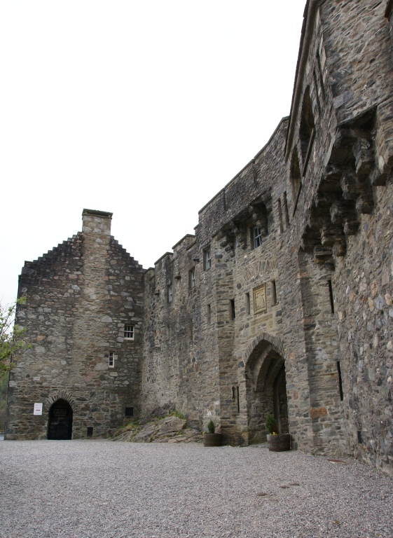 Eilean Donan Castle, Scotland - main gate and south west wing